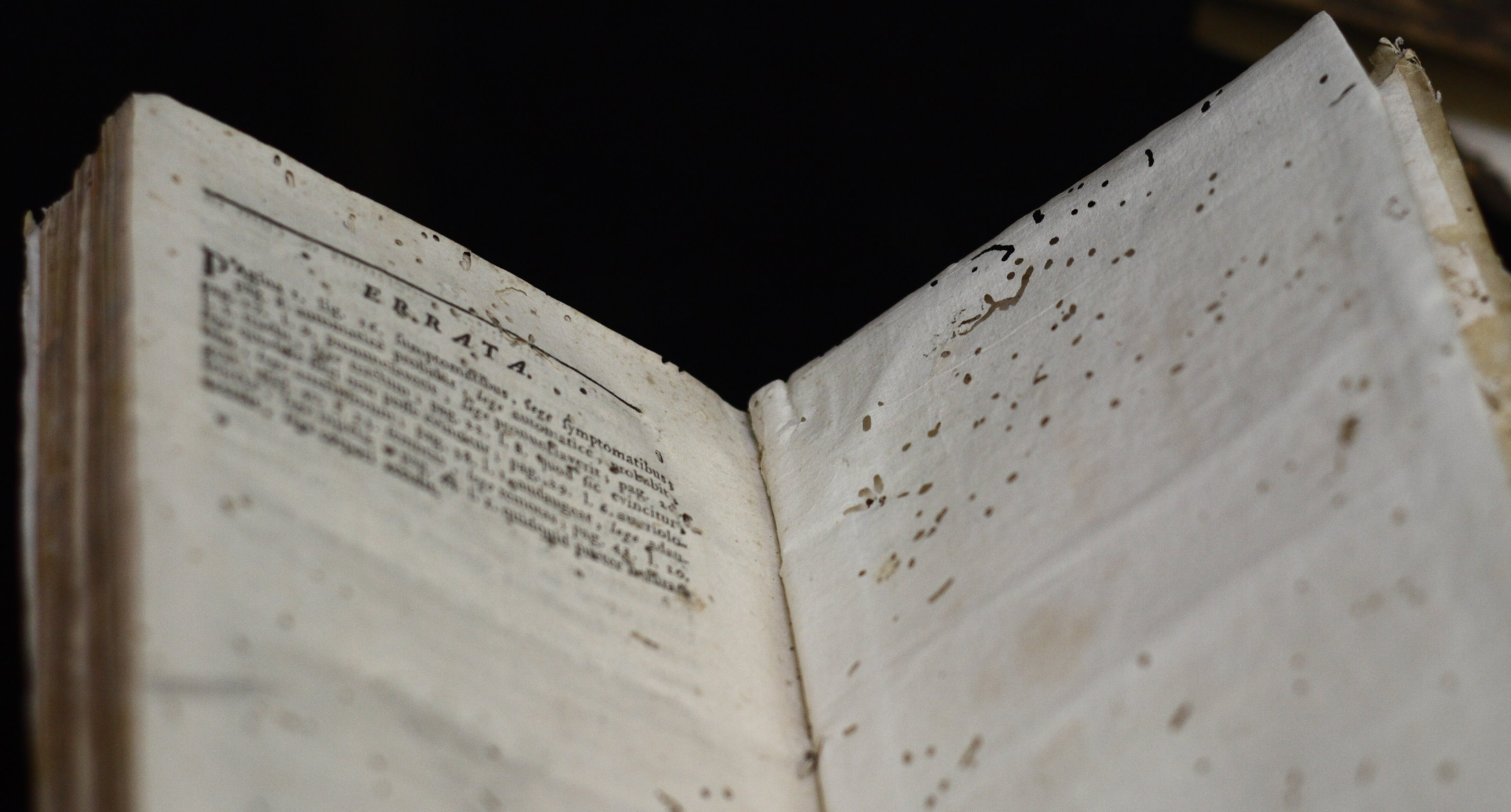 A book showing damage from insect infestation ("bookworms"), on display at the Yale Medical School library